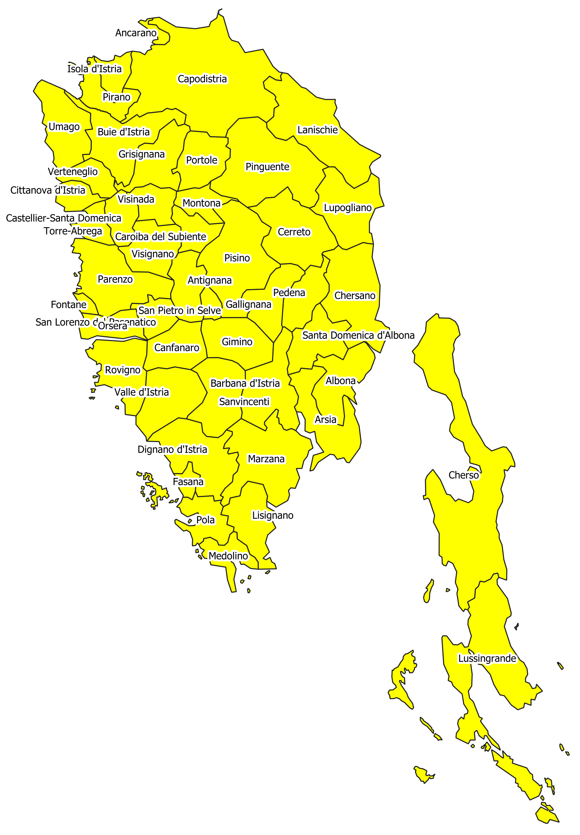 Province of Pola in the 1923-1945 period, depicted borders don't match the current ones because have been used current administrative borders